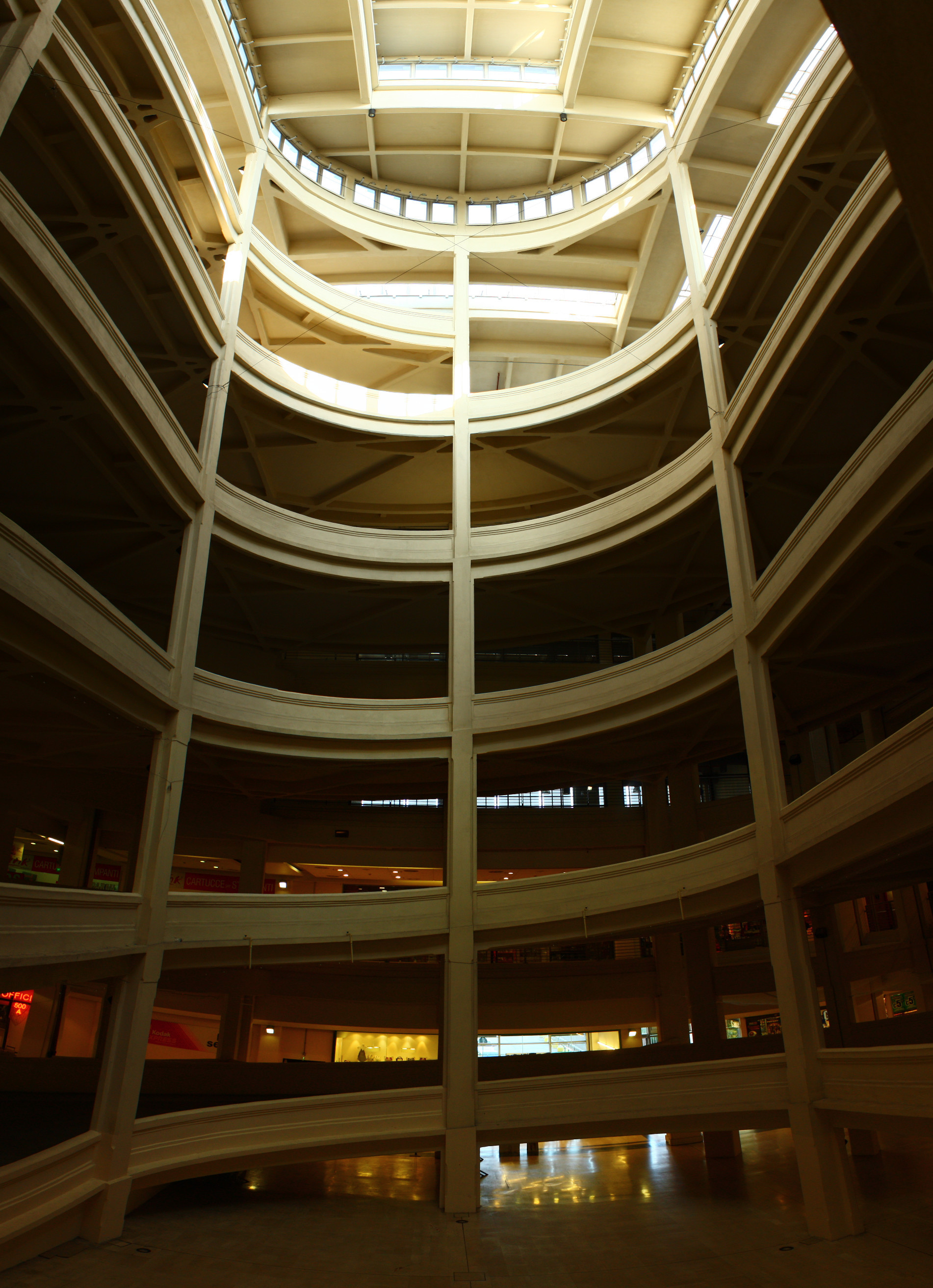 Spiral roadway to move cars up to a higher level of the FIAT Lingotto factory in Turin.